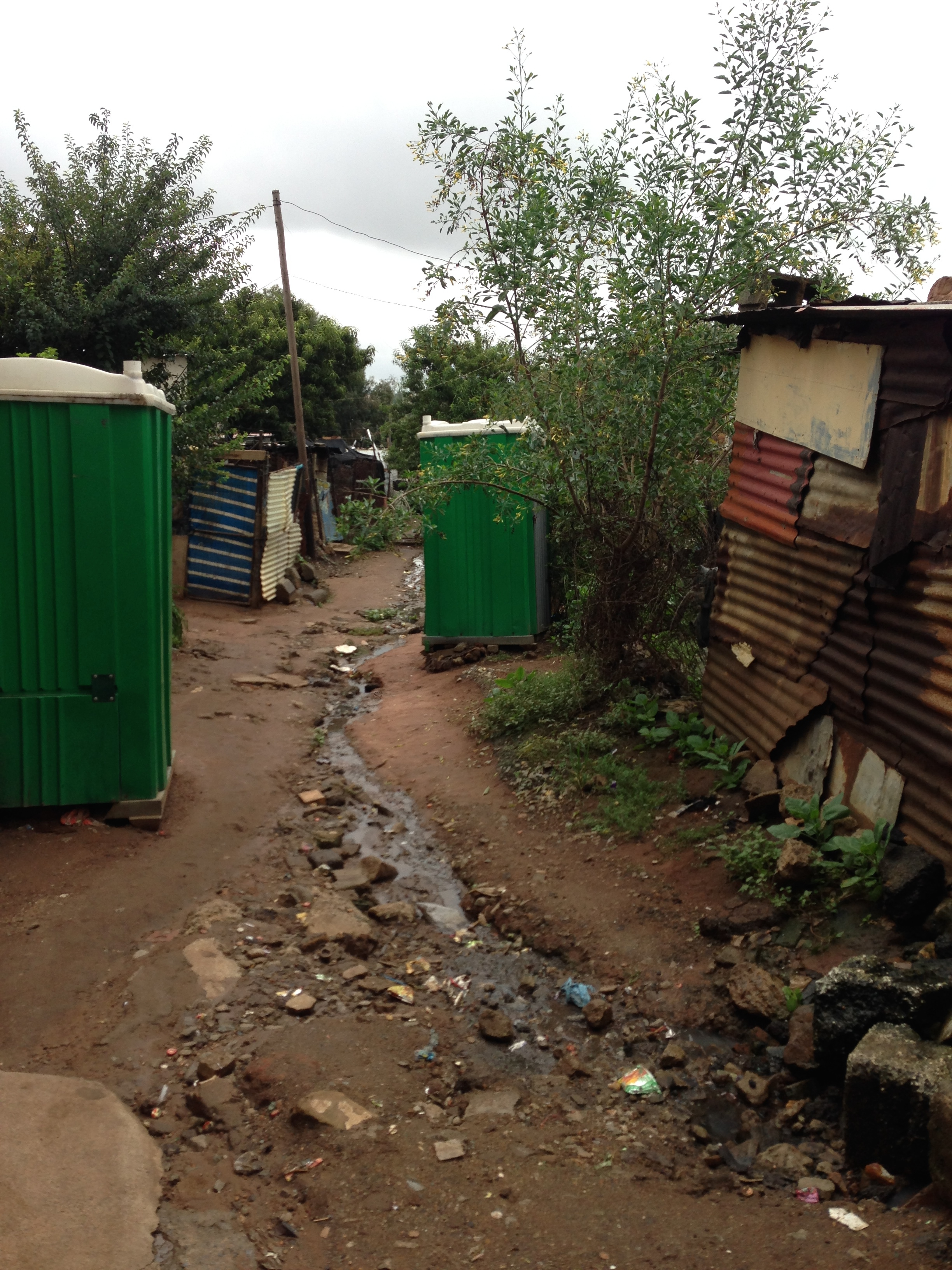 Klipspruit 298-Iq, Soweto, 1809, South Africa